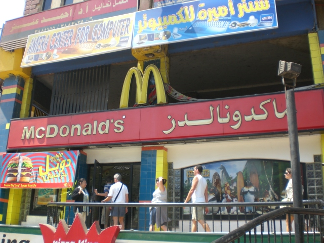 McDonald's in Cairo. August 18, 2007